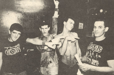 Author: GLEN E. FRIEDMAN url